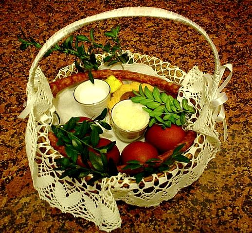 Easter basket, Poland